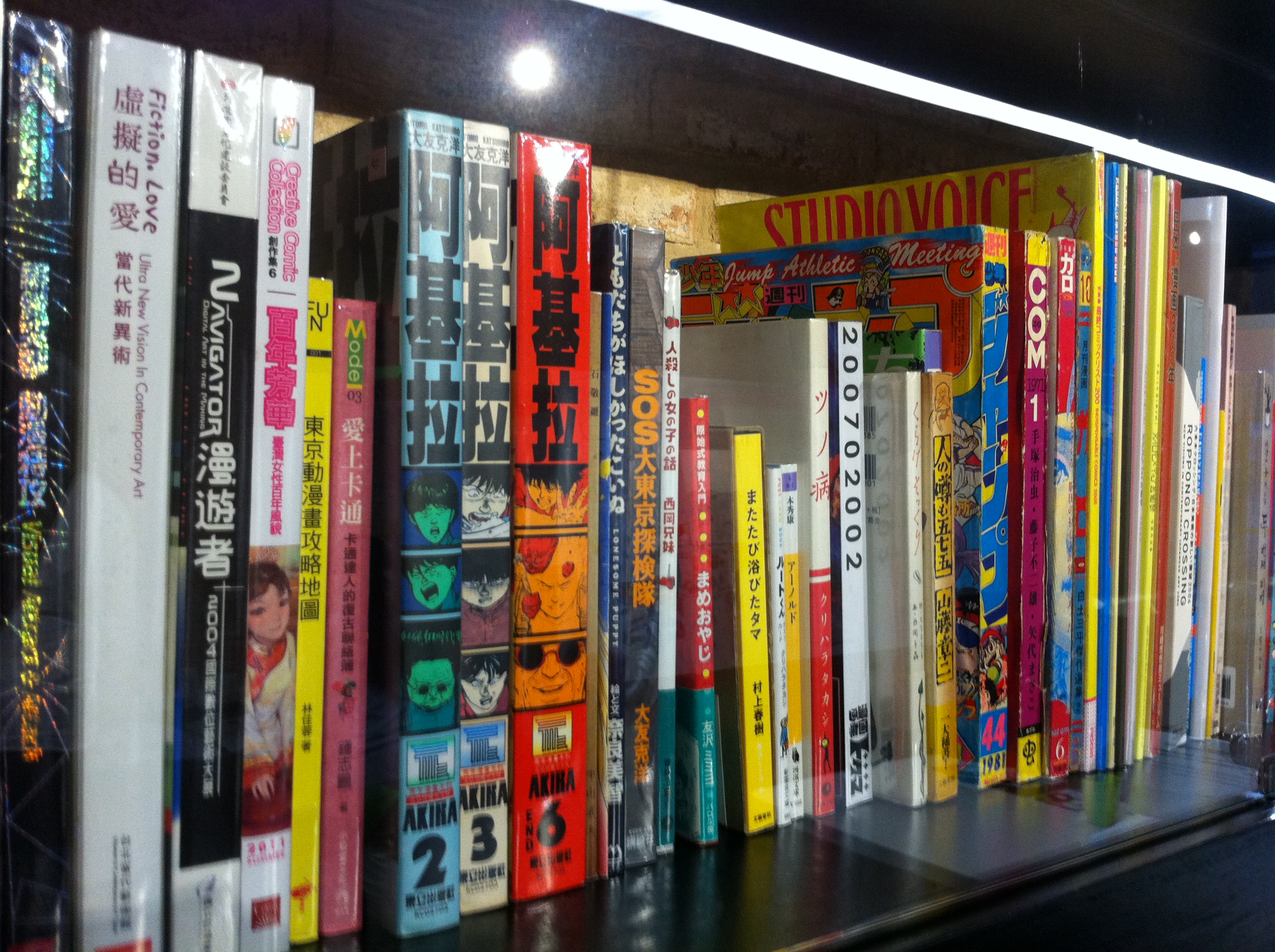 灣仔 動漫基地, Comix Home Base, Mallory Street, Wan Chai, Hong Kong